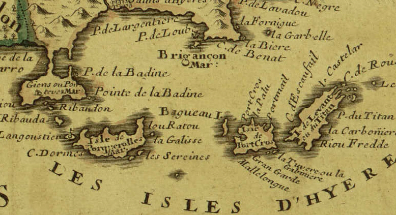 Cropped photo showing the Îles d'Hyères of an old map of 1707 by Jean Nicolas de Tralage. The map shows "Le comté et gouvernement de Provence avec les terres adjacentes ; divisé en sénéchaussées et en Vigueries" selon les mémoires de Honoré Bouche, Robert de Briançon, Petré et de plusieurs autheurs", Published in Paris : in I.B. Nolin, 1707. BNF Richelieu, cote : Ge DD 2987 (693)